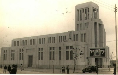 Side perspective of the Desamparados' Church